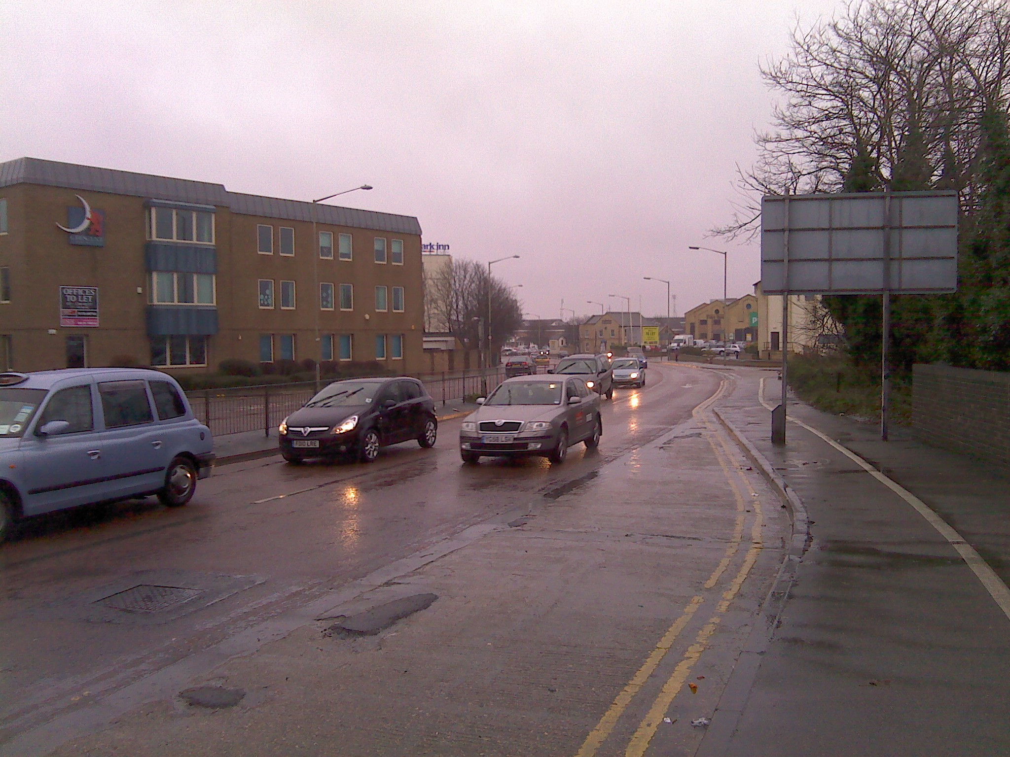 The A15 dual carrigeway in the city centre of Peterborough.